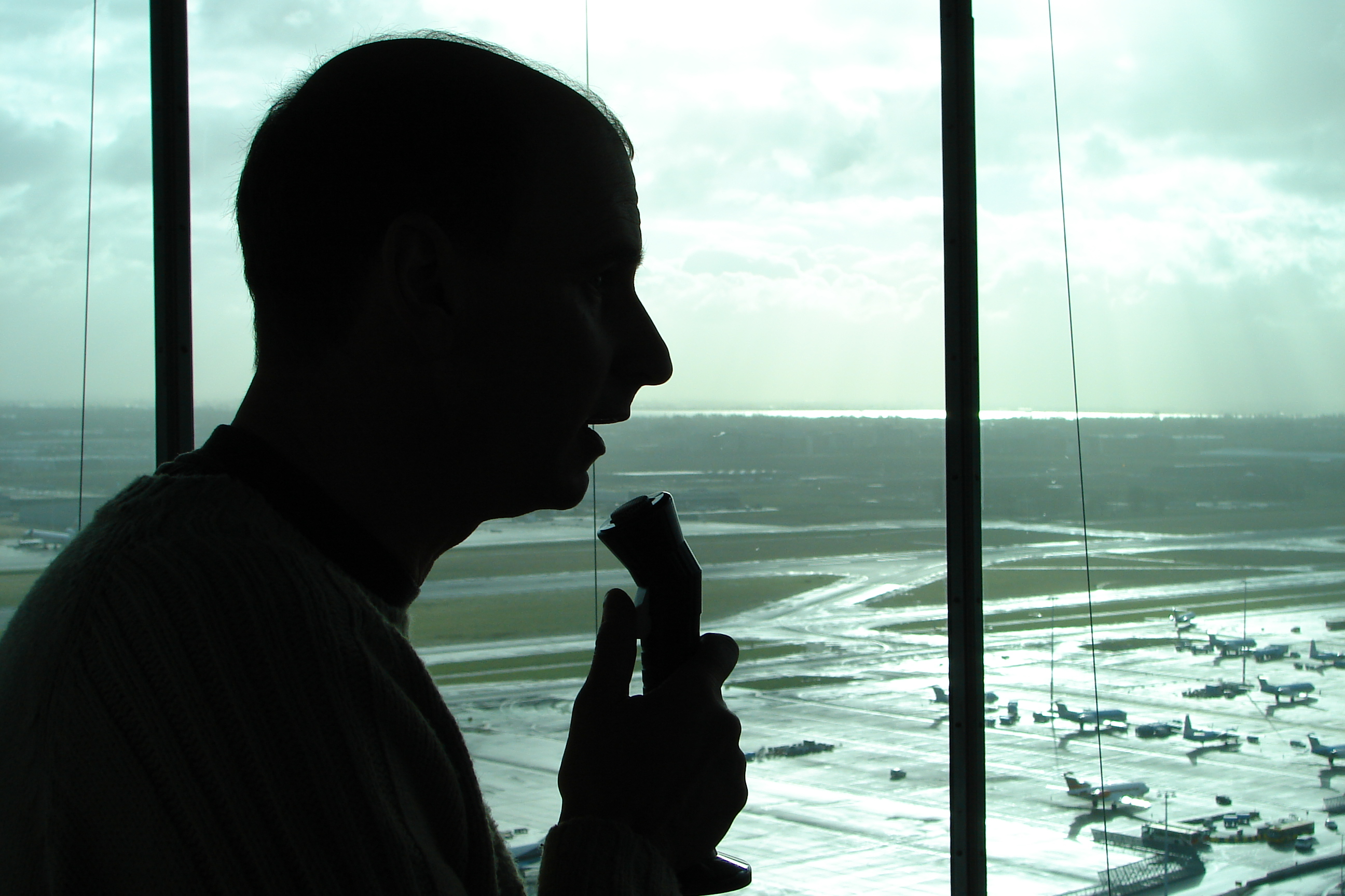 Air Traffic Controller in EHAM TOWER, Schiphol Airport